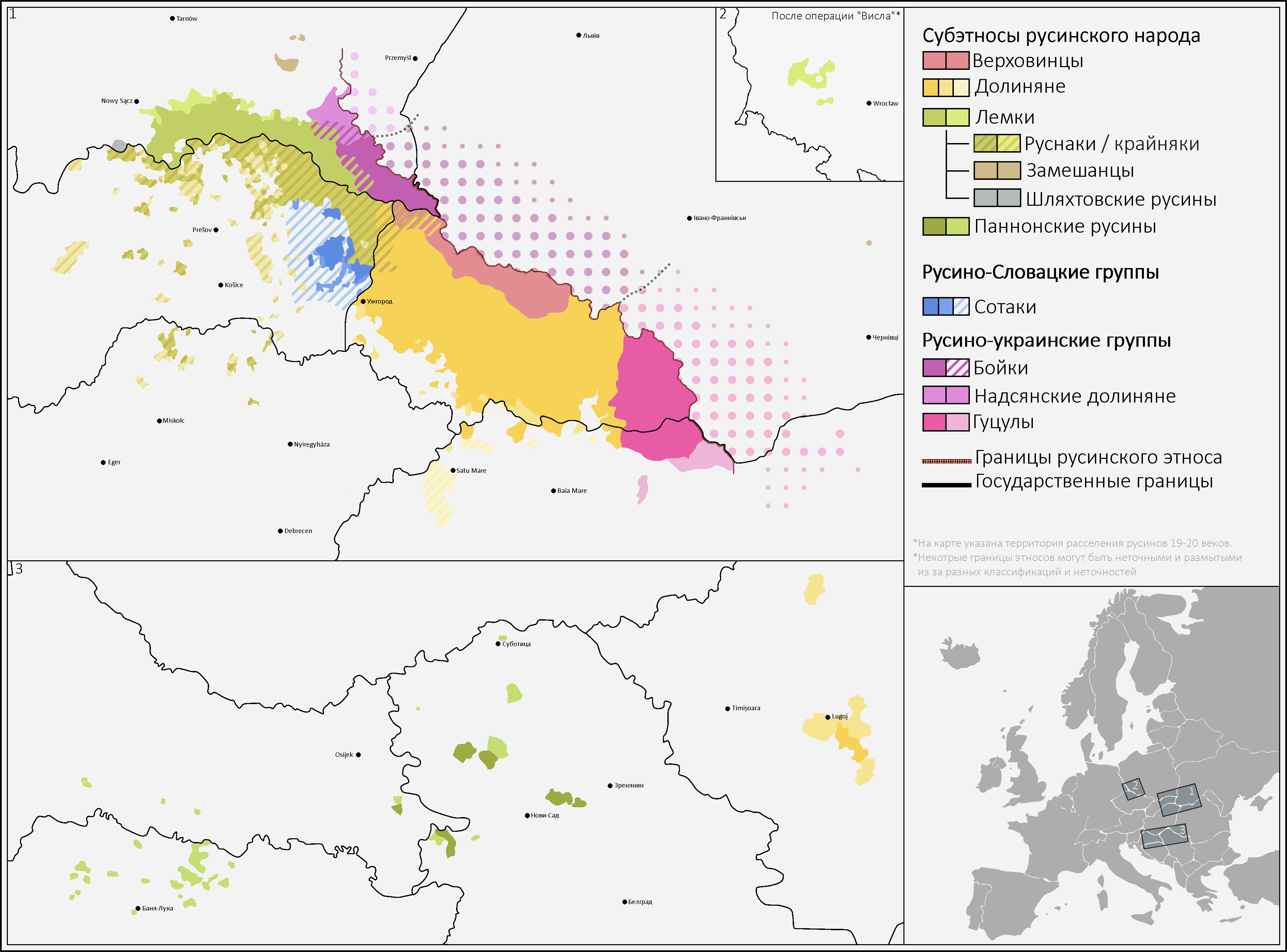 The territory of residence Rusyns